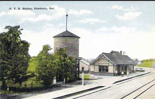 Grand Trunk Railway, ca. 1905 in Caledonia, Ontario